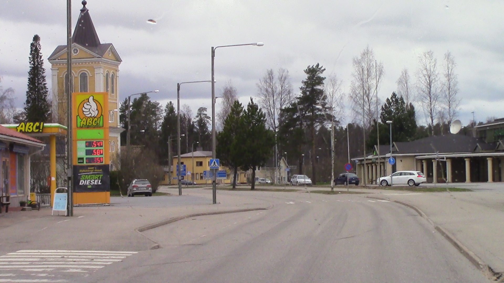 Finnish regional road 664 at Isojoki's centre in Southern Ostrobothnia. The road runs from Honkajoki to Kristiinankaupunki.